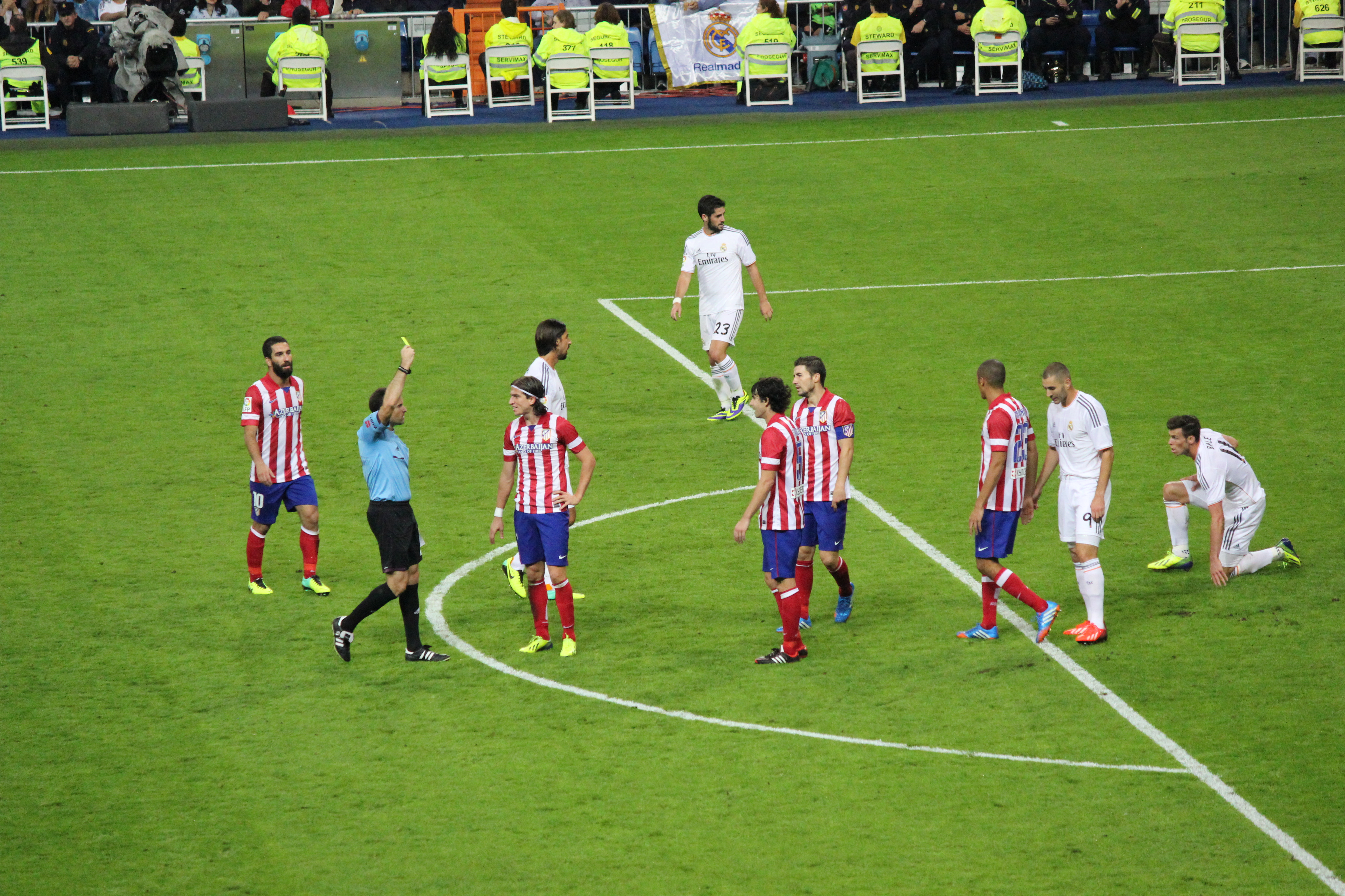 Real Madrid vs. Atlético Madrid 28 September 2013